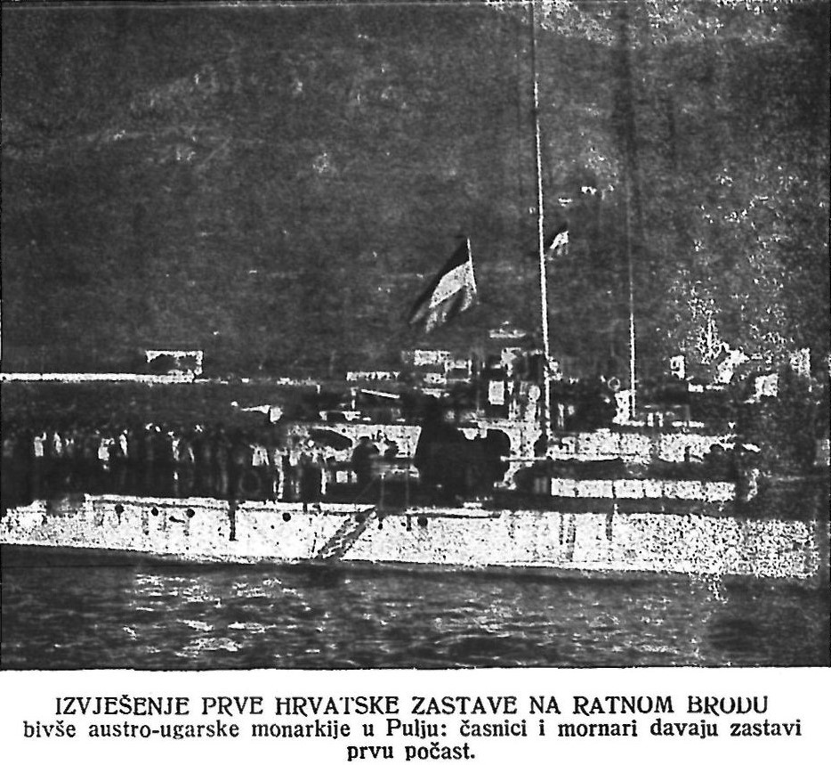 First Croatian flag ever hoisted on a naval ship, Pula, October 31st, 1918, with the crews saluting the flag. The ships were previously in service with Austro-Hungarian Navy. The entire fleet was ordered by the emperor Charles I to be transferred to fledgling Croatian authorities during the breakup of Austria-Hungary at the end of WWI.